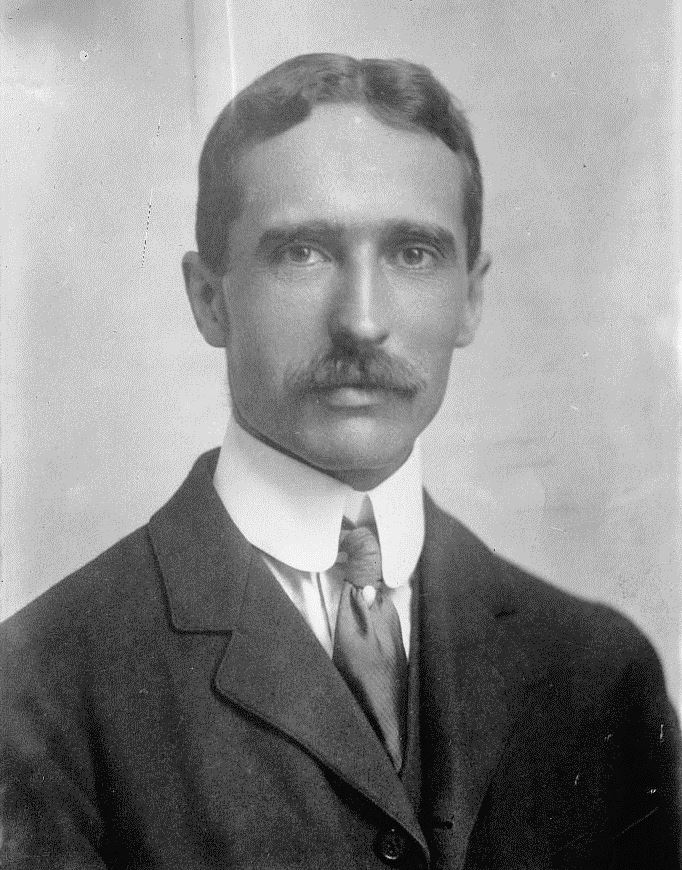 William Sloane Coffin, Sr. in 1917